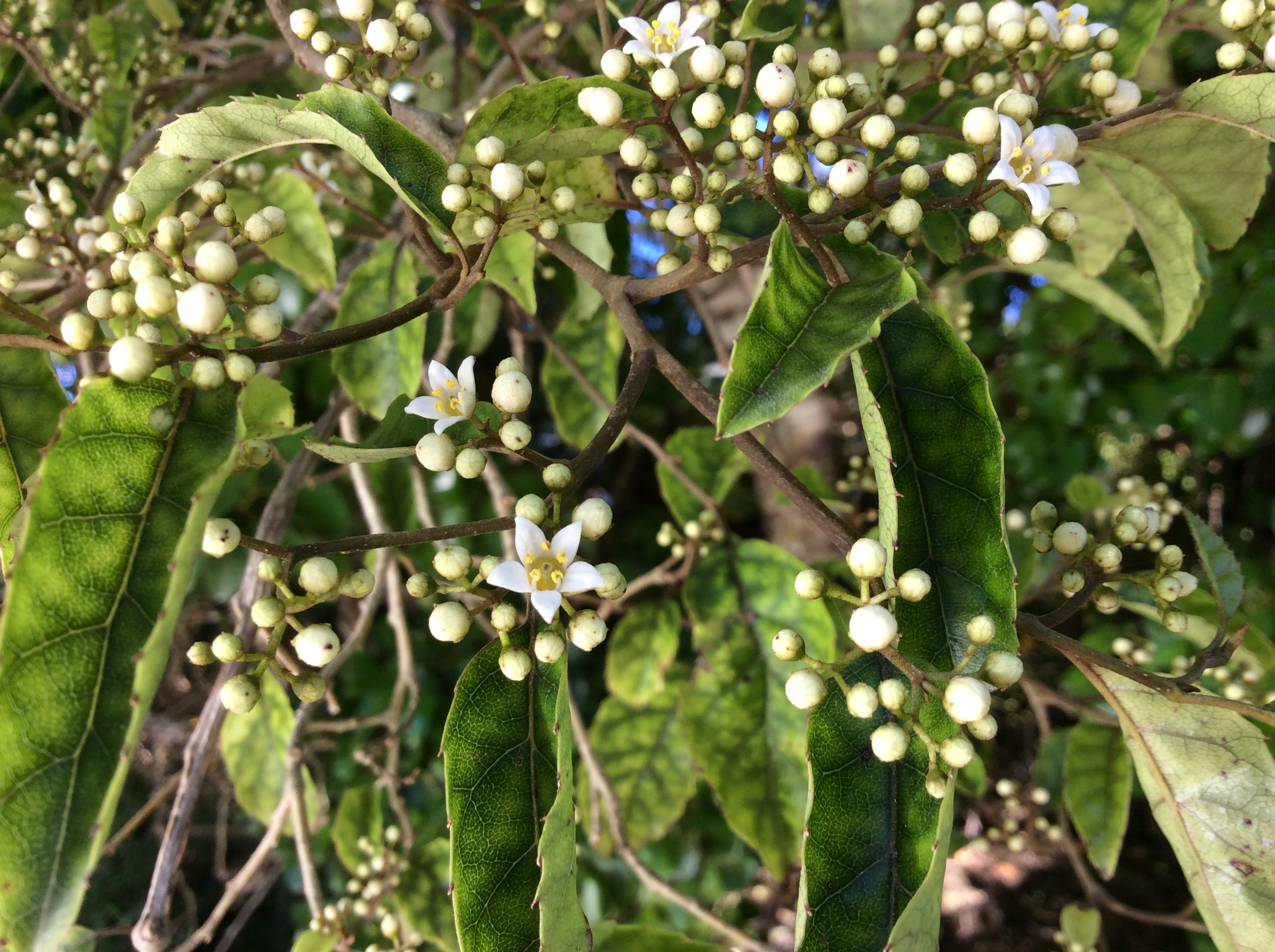 Flowering Carpodetus serratus, a tree species endemic to New Zealand. At Lake Wilkie in the Catlins, New Zealand